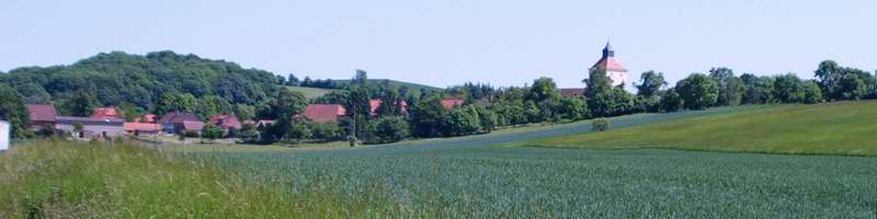 Asse, a mountain range in Lower Saxony (Germany)